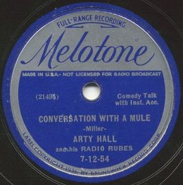 Melotone Records disc, from the 1930s